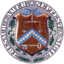 The former seal of the United States Department of the Treasury, used from 1789 to 1968.